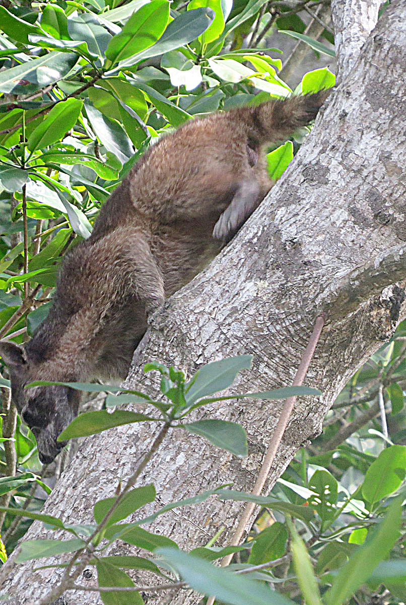 Here, in the mangroves on the Pacific coast of Panama's Darien Province, these are known as Gato Manglar (Mangrove Cat), but this is clearly a racoon.